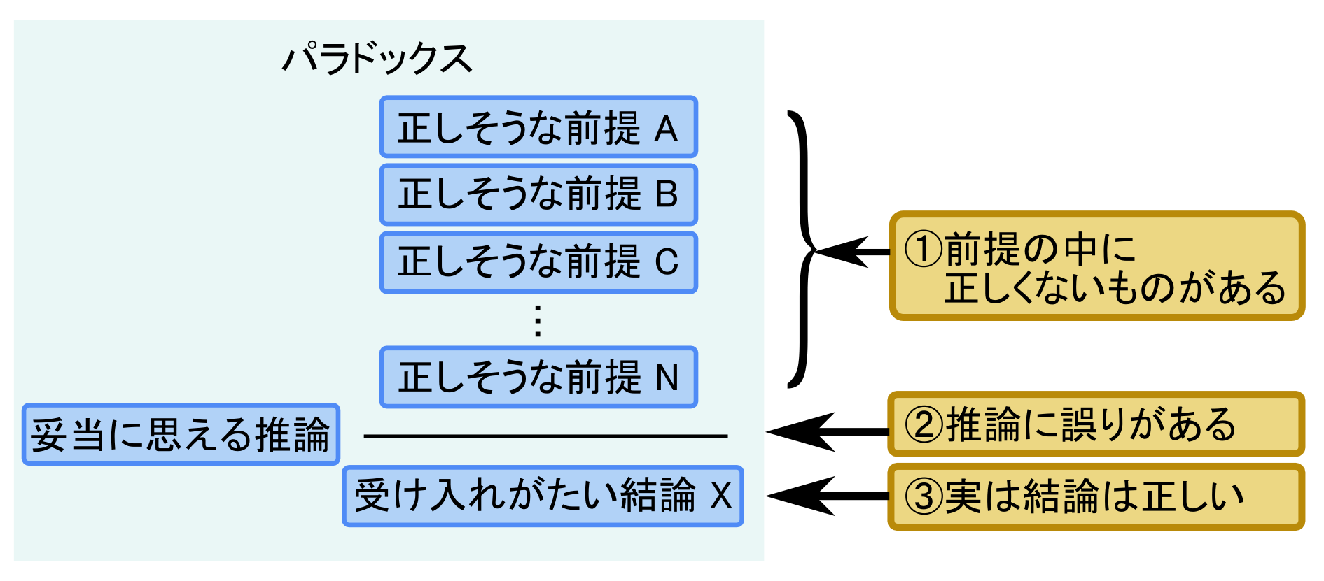 diagram about structure of paradox, in Japanese. I made this based on description in Toshihiko Miura "Ronrigaku ga wakaru jiten(Introduction to Logic)" ISBN 4534037104